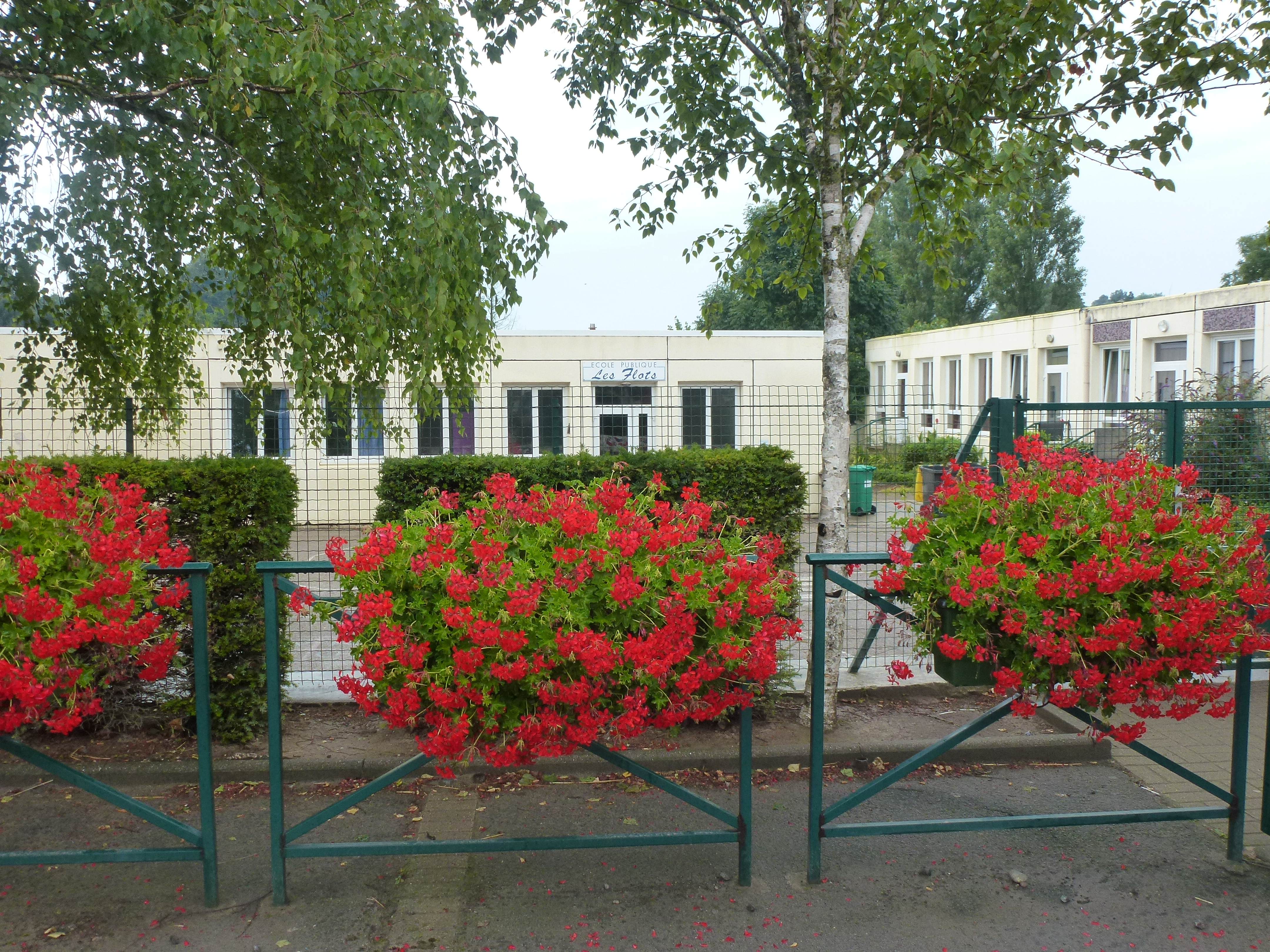 Hames-Boucres (Pas-de-Calais) école